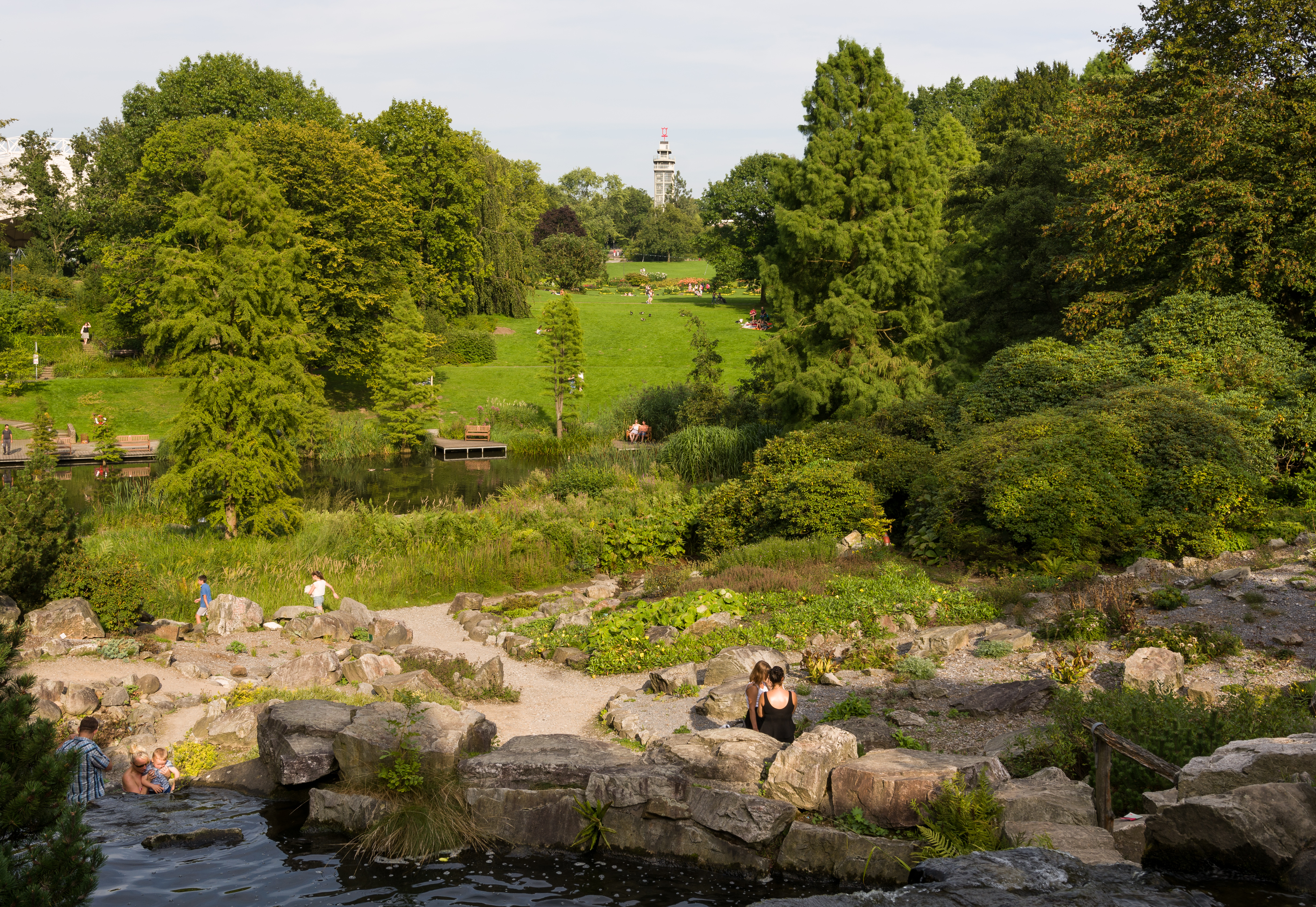 View from the waterfall over the park Grugapark, the Tummelwiese up to the tower Grugaturm